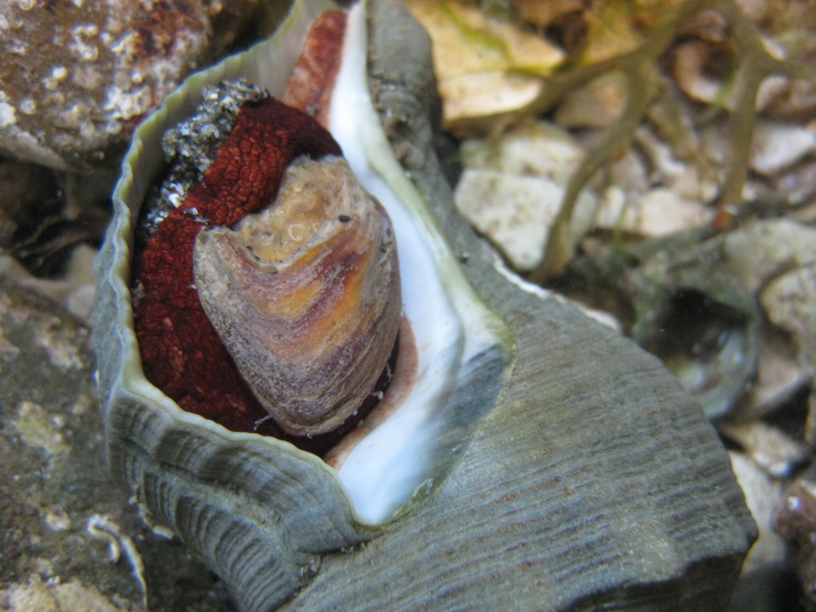 Live Penion sulcatus near Goat Island, New Zealand